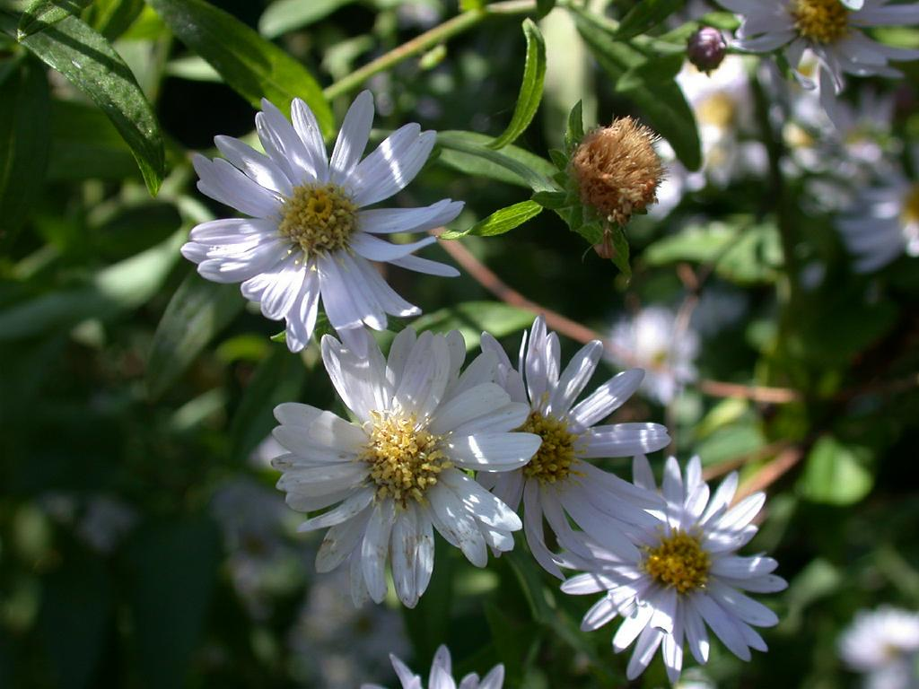 Name Aster ageratoides subsp. ovatus （ノコンギク） Family Asteraceae Date;2006,10;Tanabe city, Wakayama prefecture, Japan Author;Keisotyo